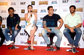 Salman Khan, Kareena Kapoor at the trailer launch event of the film Bajrangi Bhaijaan.